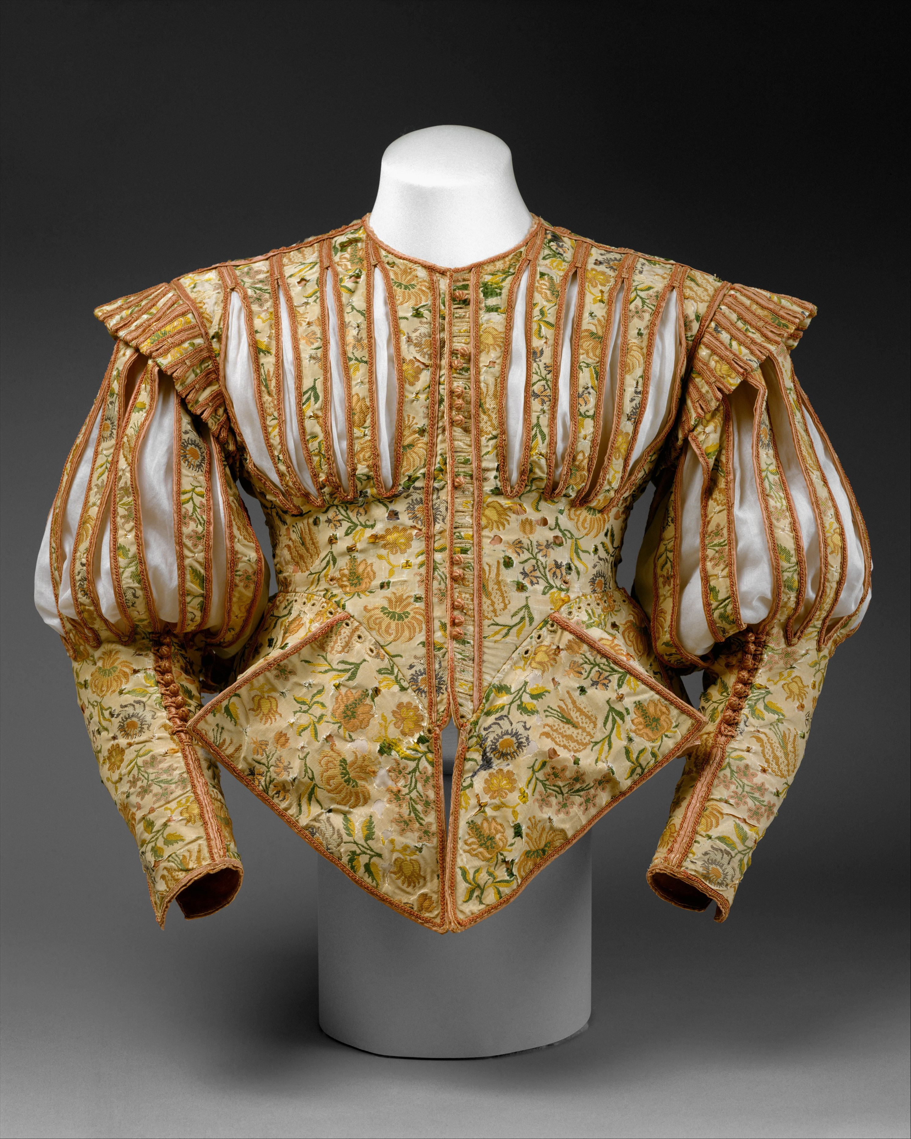 French; Doublet